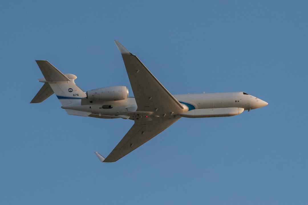 IAF Gulfstream G500 "Nachshon-Shavit", in IAF cadet graduation ceremony, #154